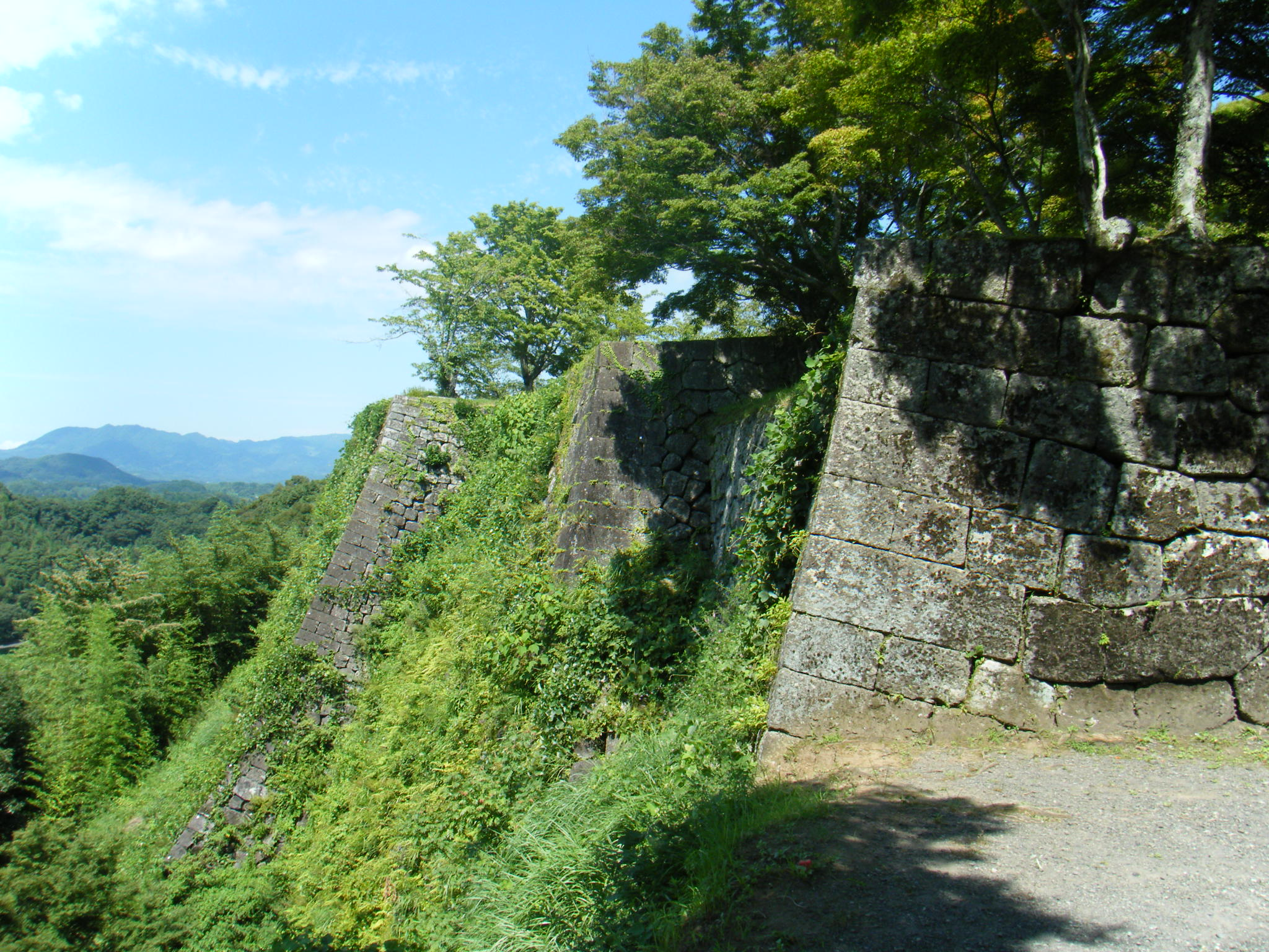 Okajoshi